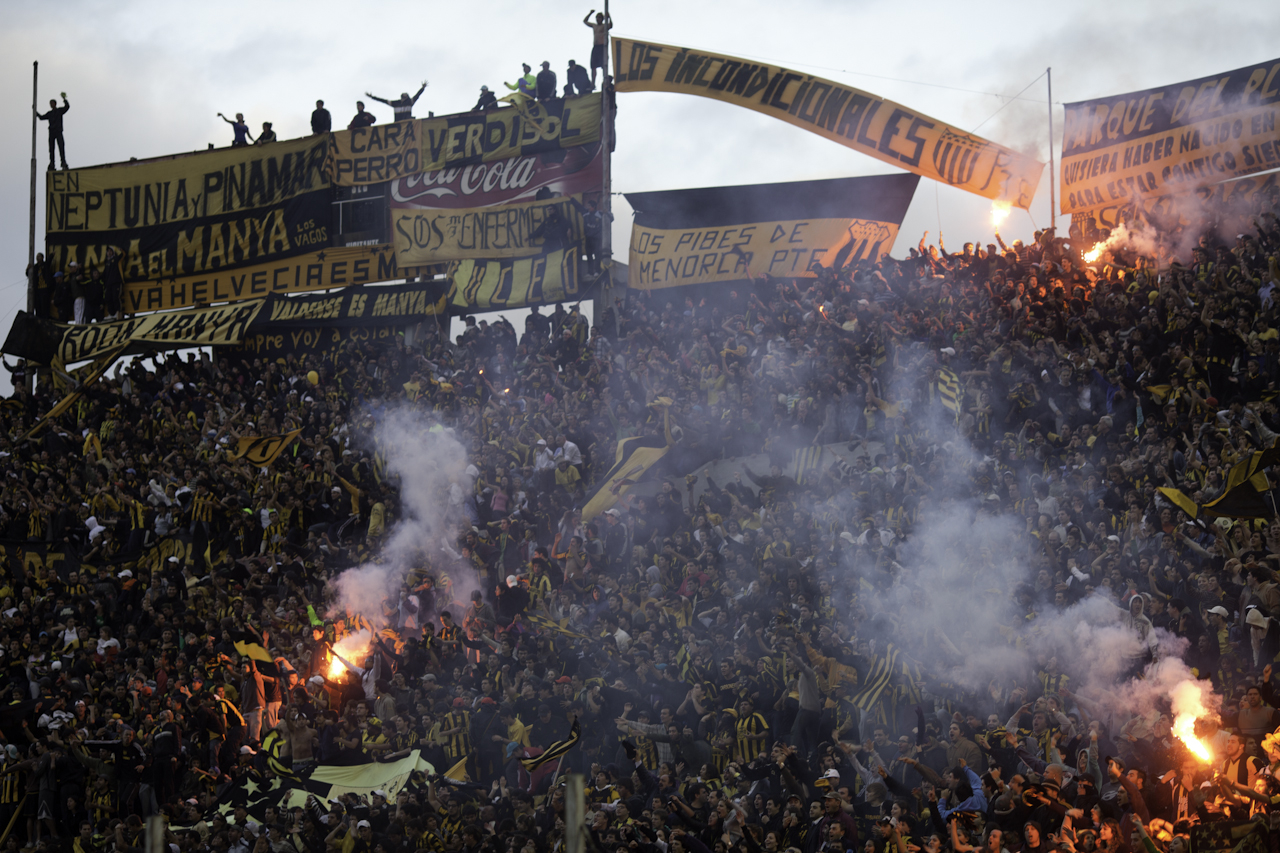 Peñarol fans during the second final of the 2009-10 uruguayan championship.